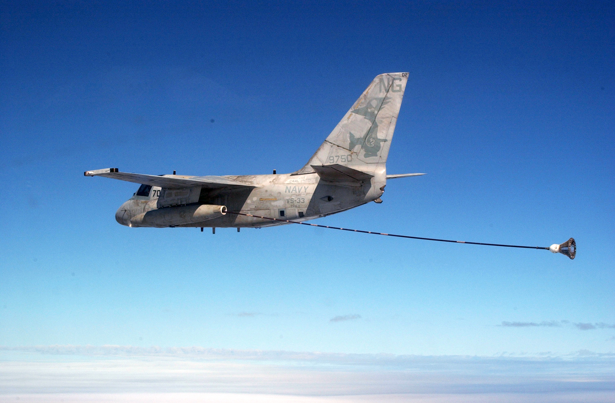 At sea with USS Carl Vinson (Jan. 25, 2003) -- An S-3B ‘Viking” assigned to the "Screwbirds" of Sea Control Squadron 33 (VS-33) prepares to refuel during flight operations. The “Viking” serves as the in-flight refueling platform for the embarked Carrier Air Wing (CVW-9). Carl Vinson and CVW-9 are currently underway in the Southern Pacific Ocean conducting training missions in preparation for their next scheduled deployment. U.S. Navy photo by Photographer's Mate Airman Chris M. Valdez. (RELEASED)